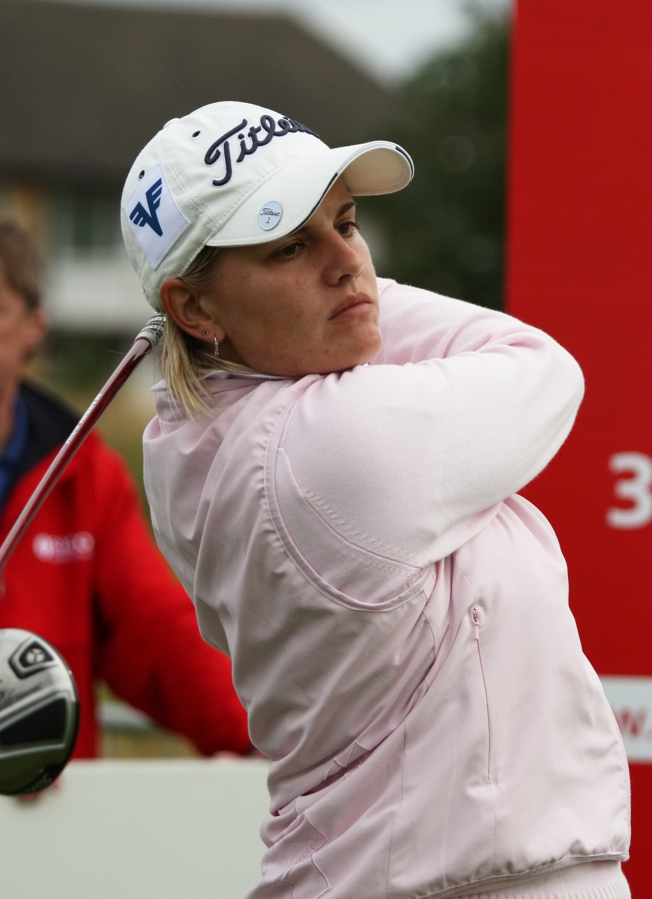 LYTHAM ST ANNES, UNITED KINGDOM - JULY 29: Nicole Gergely of Austria on the 18th tee during third practice round before 2009 Ricoh Women's British Open held at Royal Lytham & St Annes on July 29, 2009 in Lytham St Annes, England. (Photo by Wojciech Migda)